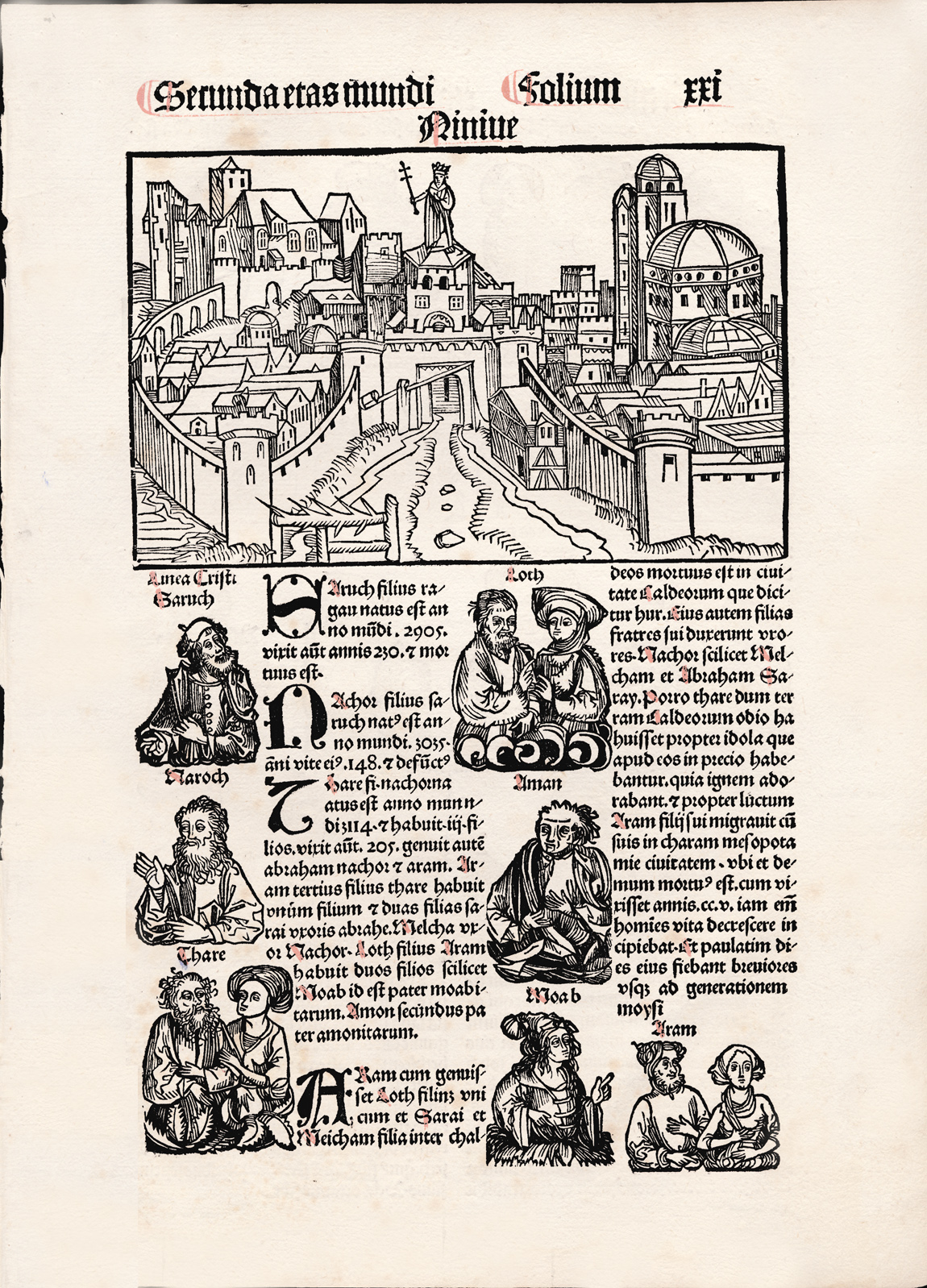 A page from a pirated Latin edition of "Liber Chronicarum" (aka the Nuremberg Chronicle) written by Hartmann Schedel printed in a Latin edition in 1497 by Johann Schönsperger (c. 1455-before 1521), about four years after the authorized edition completed by Koberger in 1493.